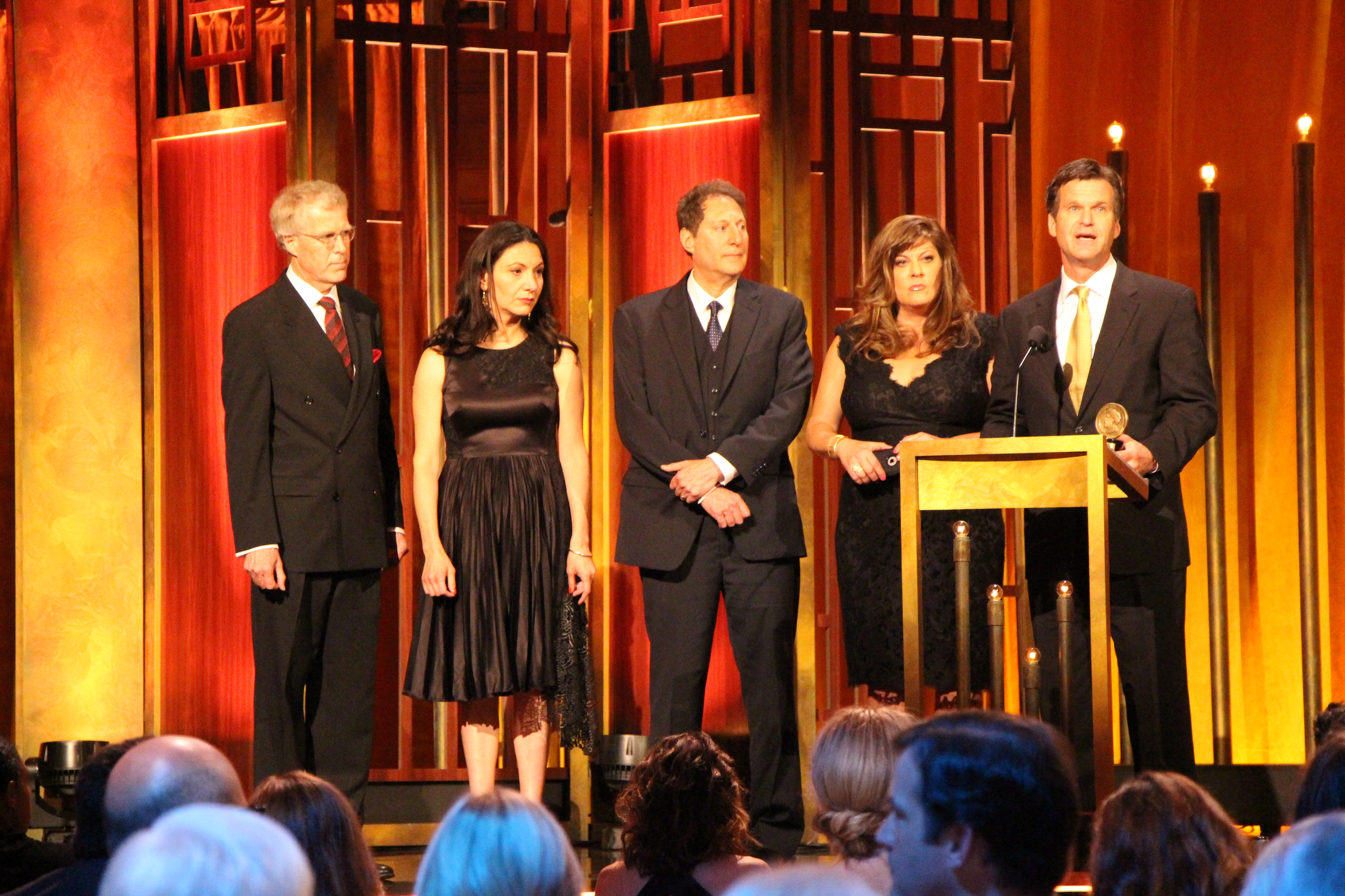 Correspondent Drew Griffin accepts the Peabody for Crisis at the VA. He is joined on stage by Nelli Black, Scott Bronstein and Patricia DiCarlo.